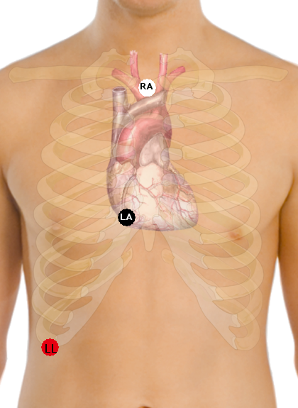 placement for lewis leads on ekg